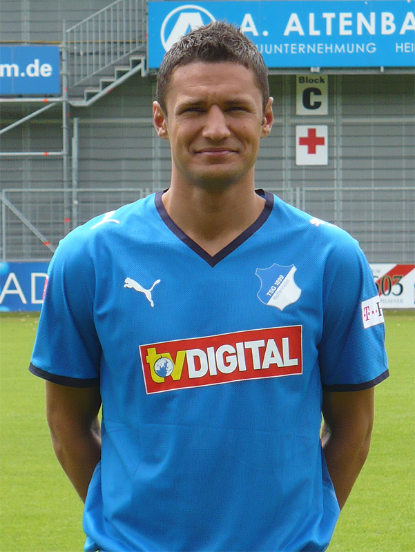 photoshooting season 08/09